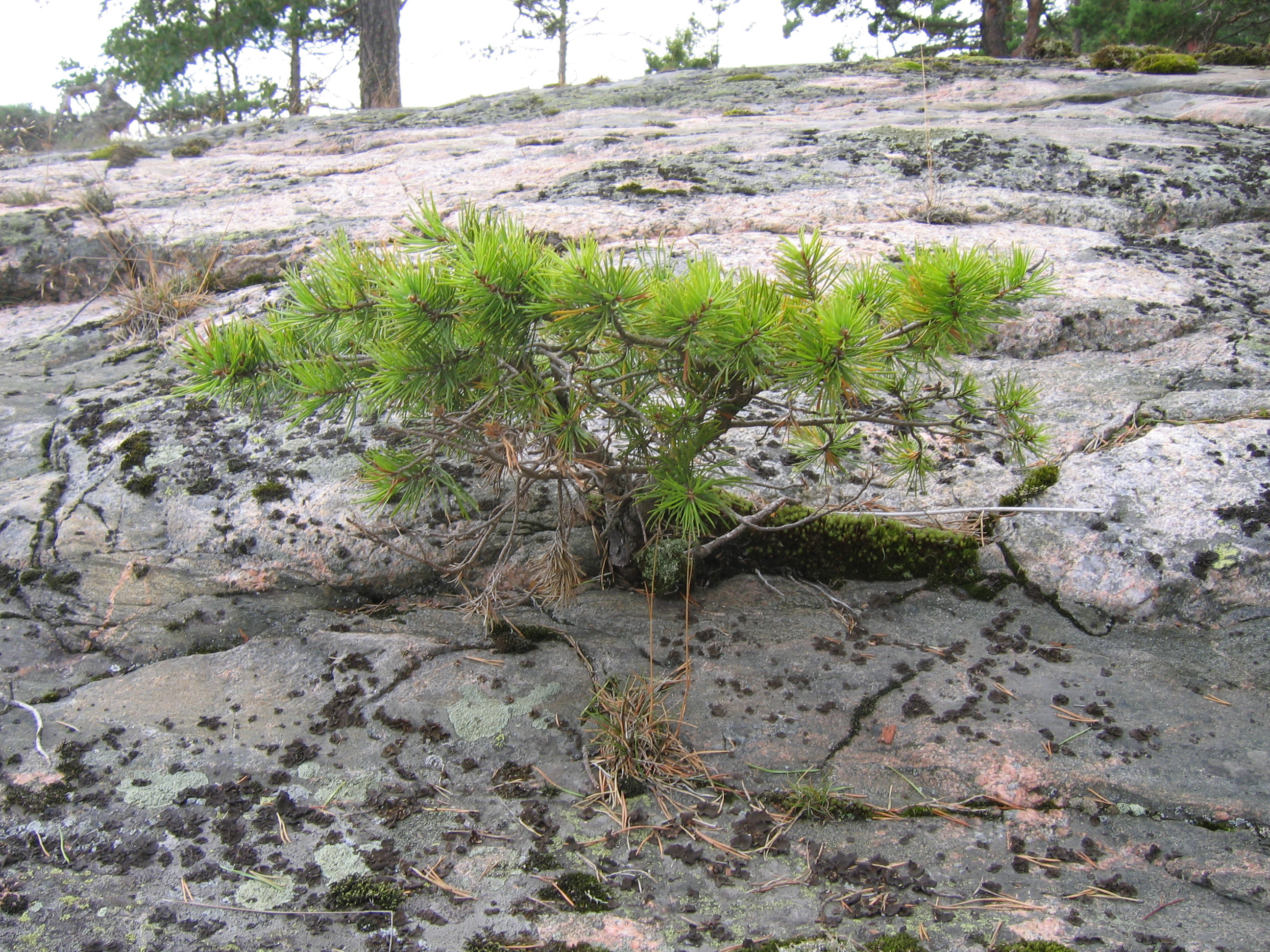 A Scots Pine (Pinus sylvestris) with dwarfed growth. The tree can not grow normally due to its nutritient and water restricted environment. Photo taken in Sipoo, Finland, EU.